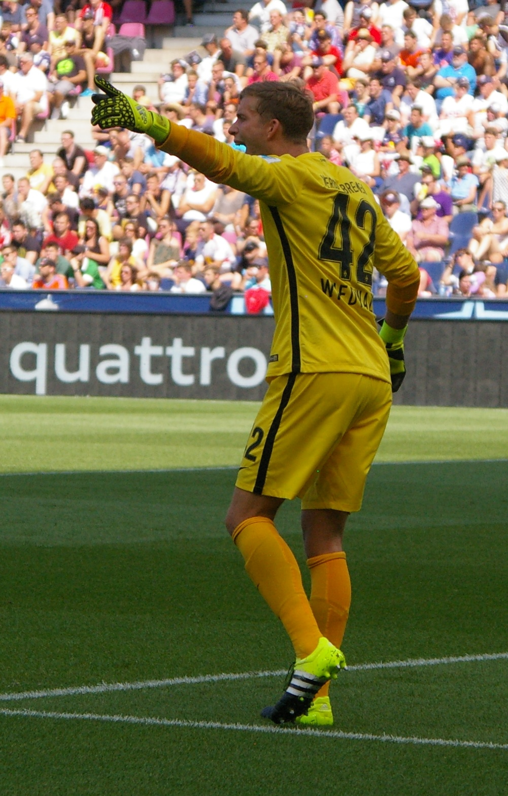 tournament with SV Werder Bremen, FC Southampton, Red Bull Salzburg and Valencia CF preseason friendly matches